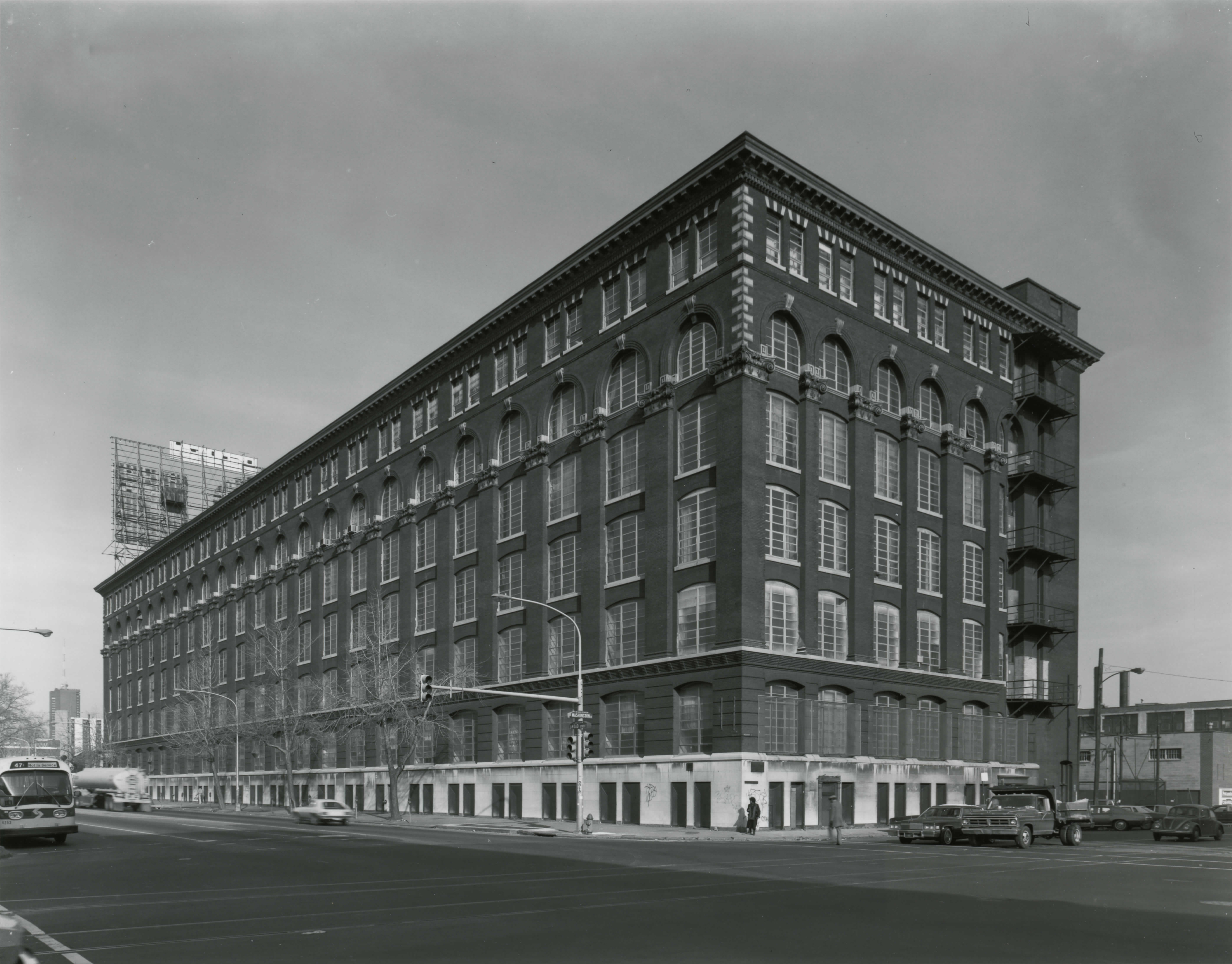 1001 S. Broad St., Philadelphia PA - John Wanamaker Clothing Factory, Washington Avenue Historic District (Washington Avenue Factory District), National Register of Historic Places Inventory-Nomination Form, Reference Number 84003561 (Sep 7, 1984)